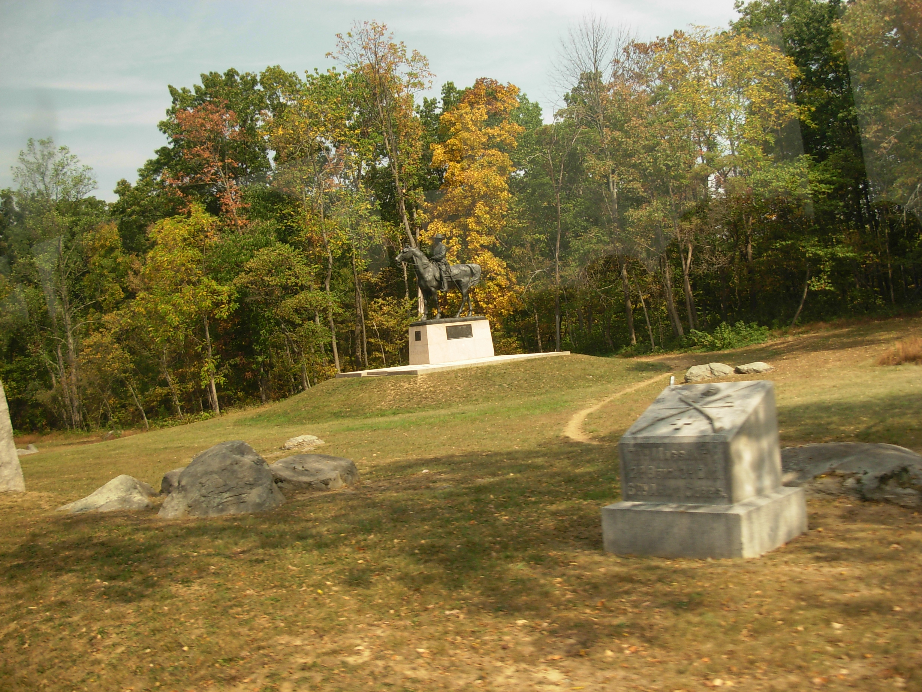 Gettysburg National Military Park and Gettysburg National Cemetery: Monument for the 7th Massachusetts Infantry (foreground right) and equestrian statue of Major General John Sedgwick in the background.